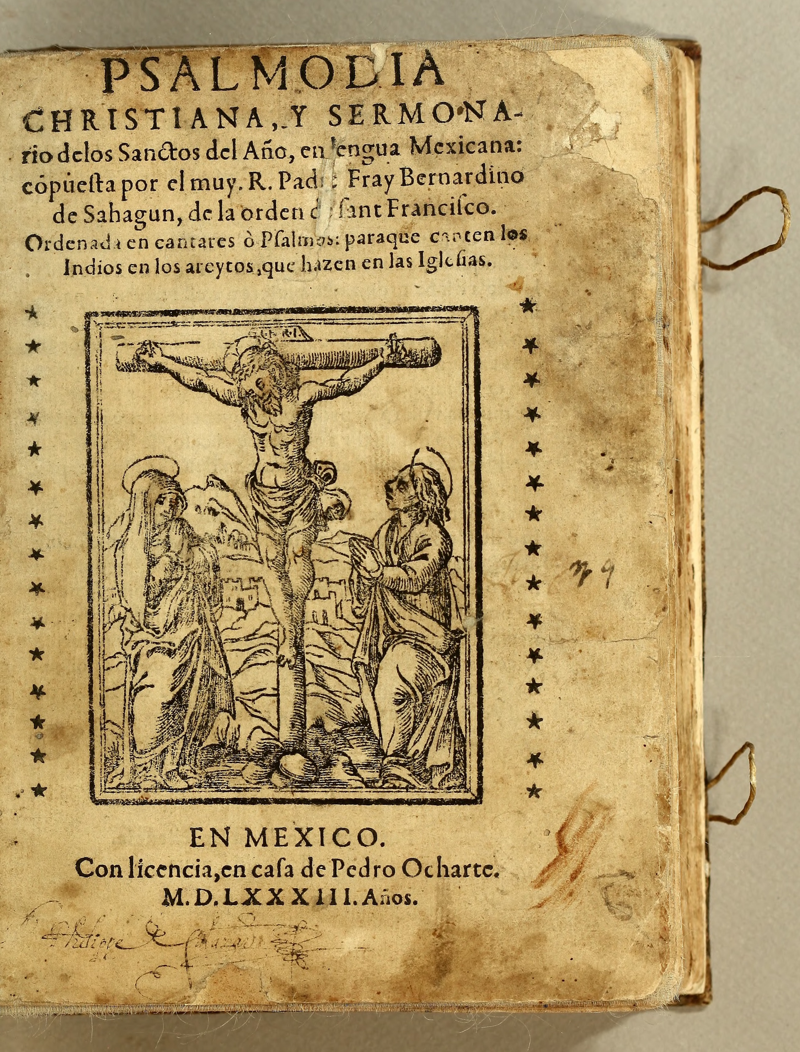 The Psalmodia christiana y sermonario de los santos del año en lengua Mexicana, by Bernardino de Sahagún, is a Nahuatl chant book that includes an introductory doctrina followed by chants for fifty-four church festivals. See the blog post "The Pages of My Chant Book: Marginal Annotations in a Sahagún´s Psalmodia Christiana" by Ana Guadalupe Díaz Álvarez for more details.